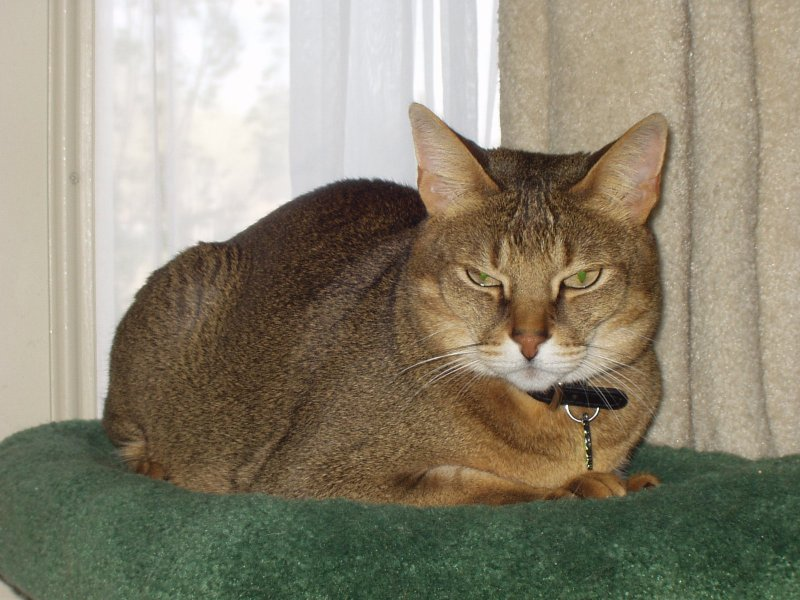 AJ, an F1 male Chausie, photo by Pschemp